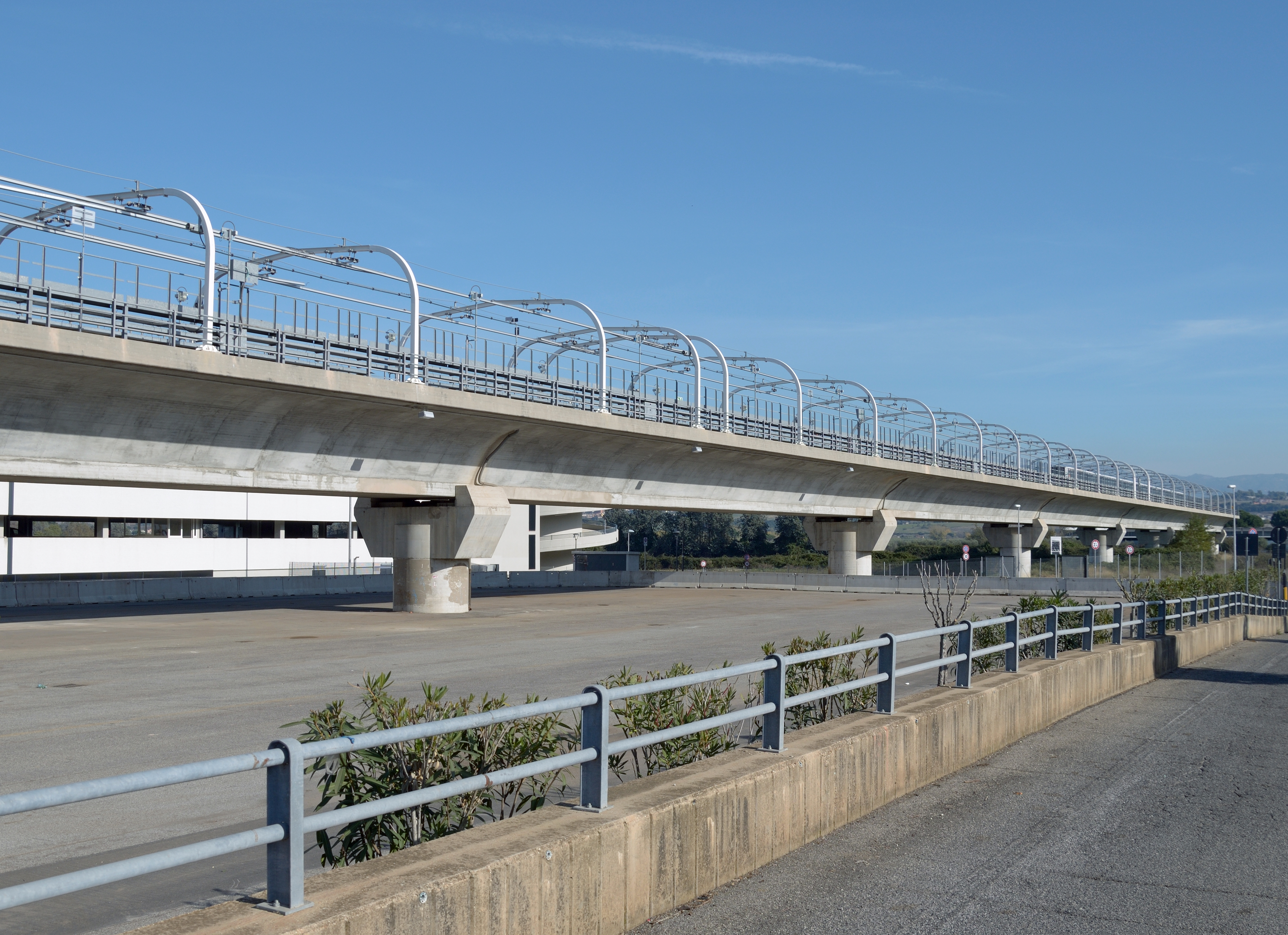 Rails End of Line C Metro of Rome